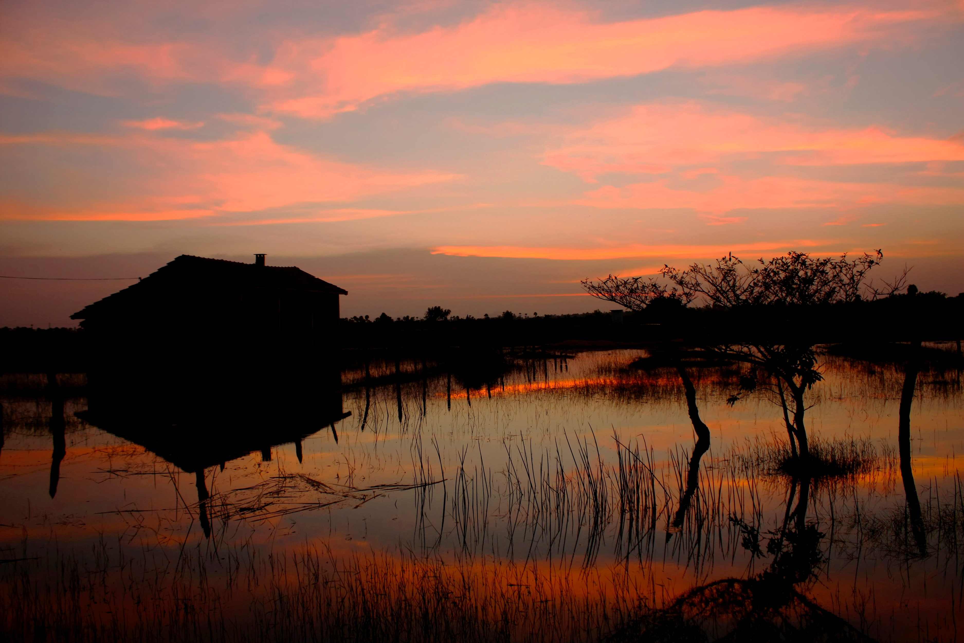 Sunset seen from Kumburumoolai (closer to Pasikudah junction), Batticaloa, Sri Lanka